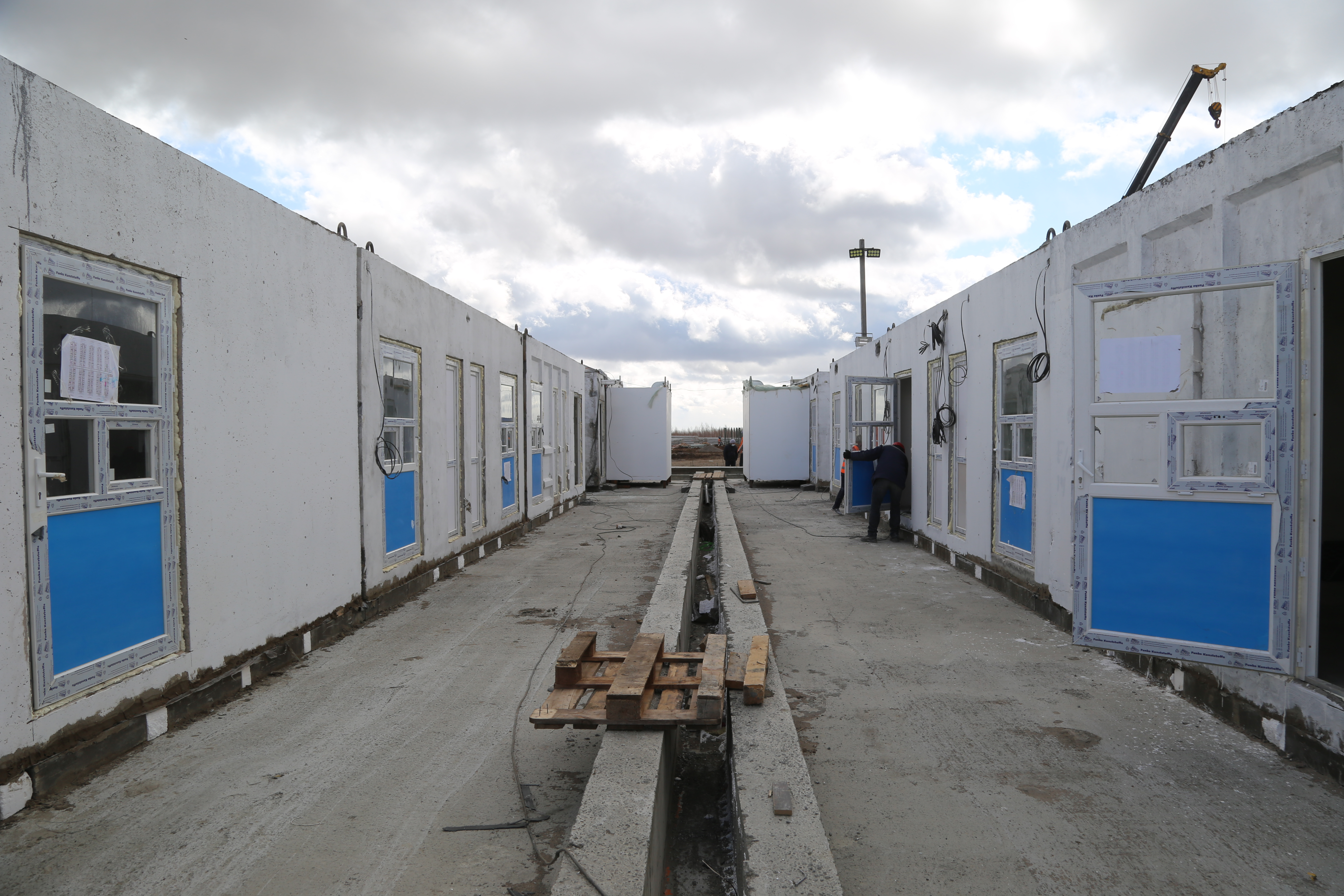 Construction of the Infectious Diseases Hospital in Nur Sultan